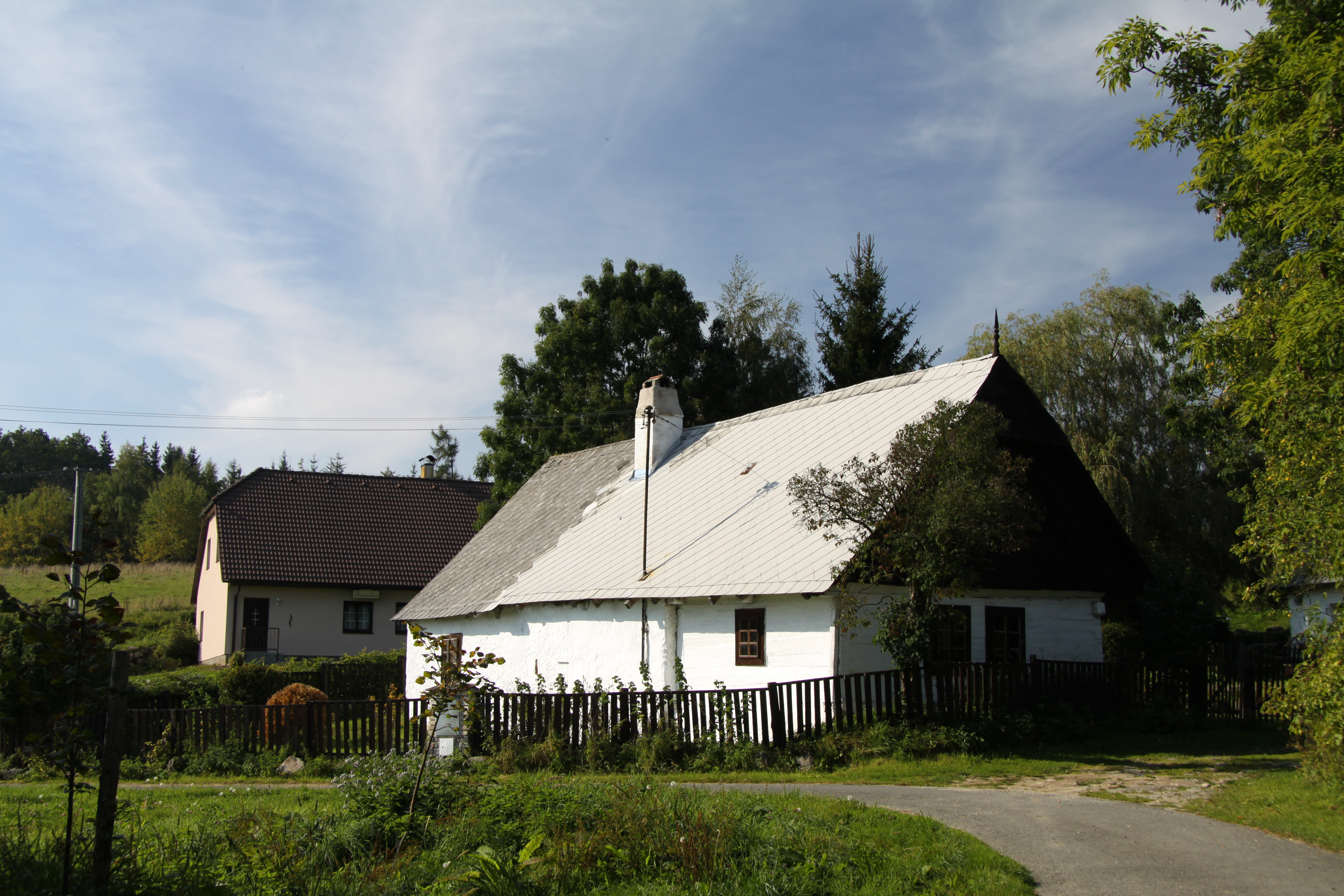 Pohořelice, part of Nadějkov village in Tábor District, Czech Republic